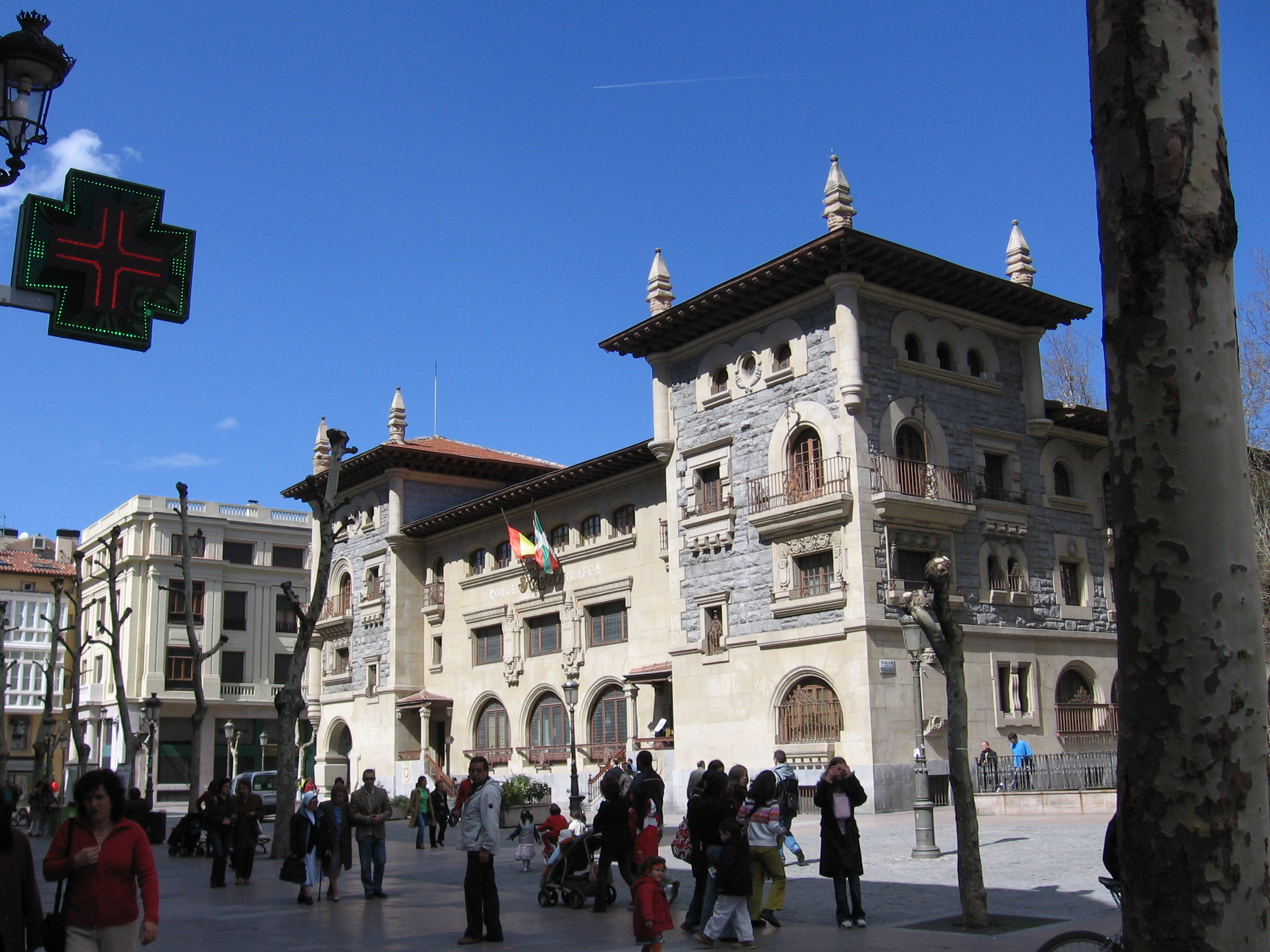 Vitoria, Spain, Main Post Office